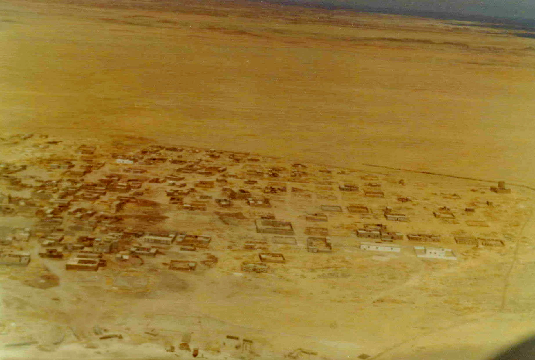 DHOFAR, Mirbat. Turning over the town to approach the landing strip. Sultan's Armed Forces 1972 / 74 License on Flickr (2011-02-09): CC-BY-SA-2.0 Flickr image creation date: 2007-06-29 16:47:26